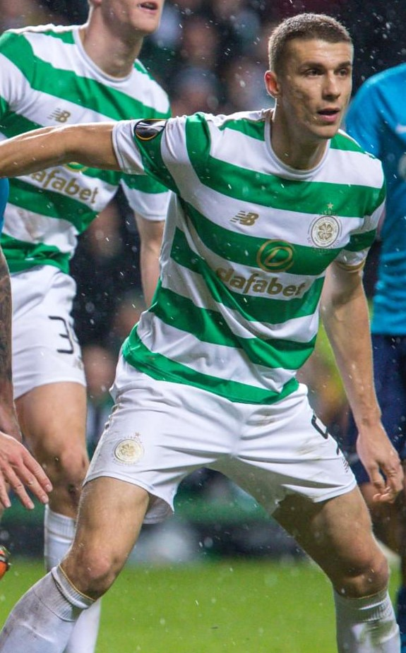 16.02.2018. Великобритания, Глазго, «Селтик Парк». Лига Европы УЕФА 2017/18, «Селтик» — «Зенит».